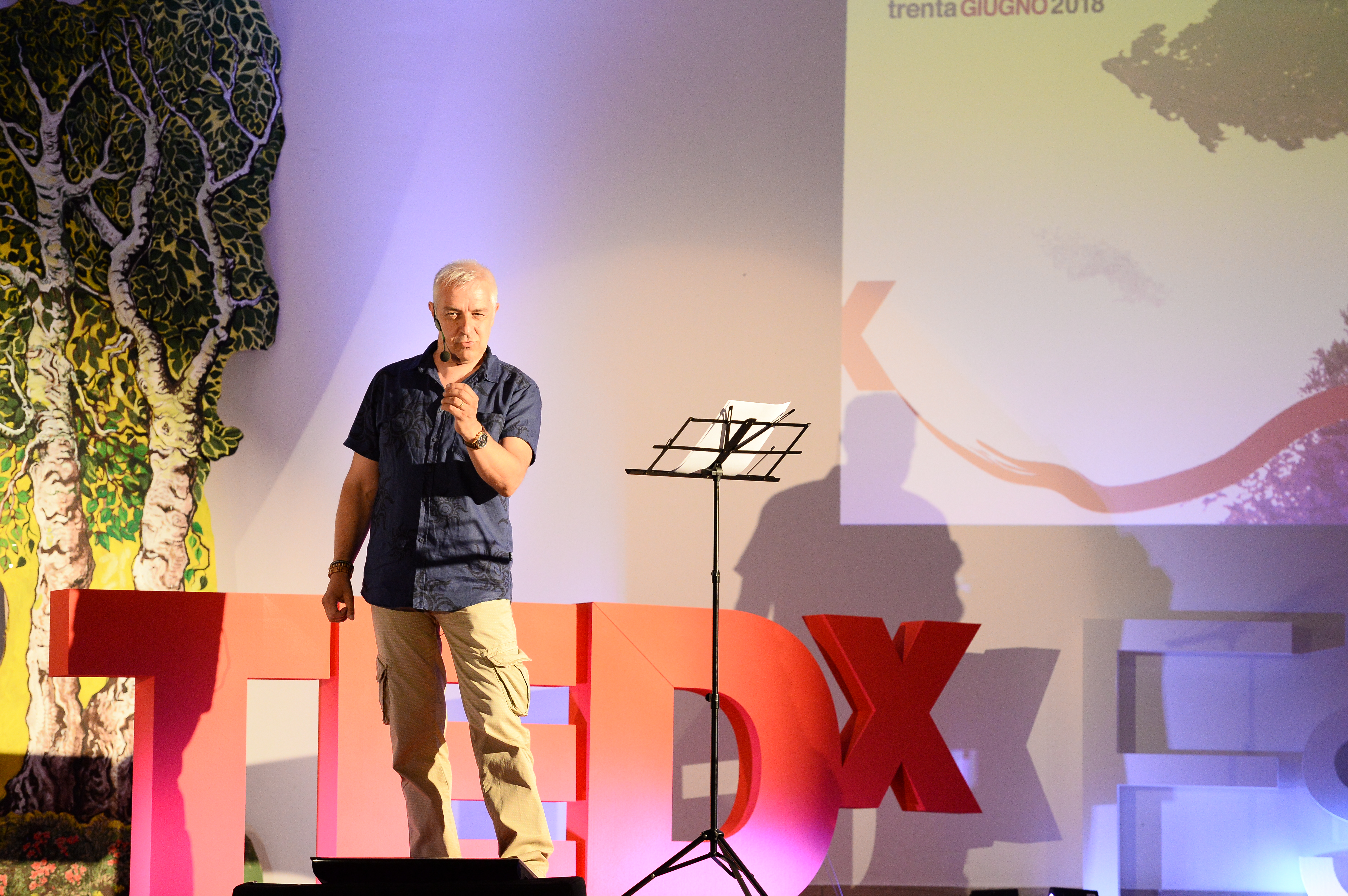 TEDxEsinoLario 2018.